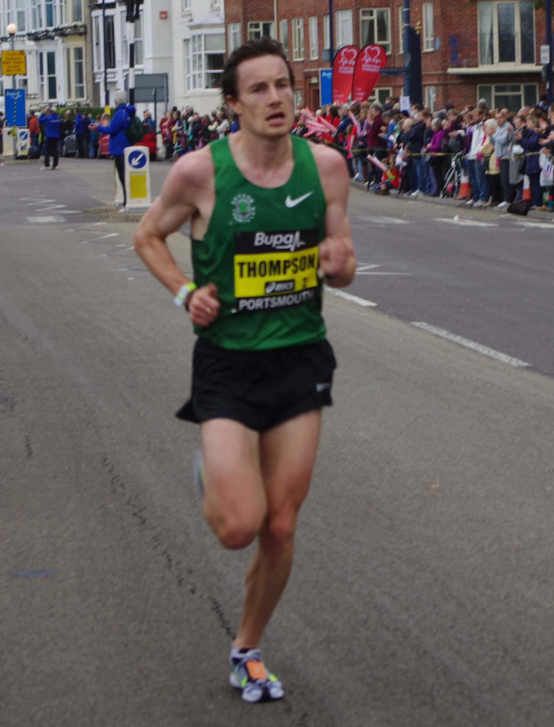 Chris Thompson just short of the 6 mile marker. He came fourth. Great South Run, 30 October 2011, Portsmouth.